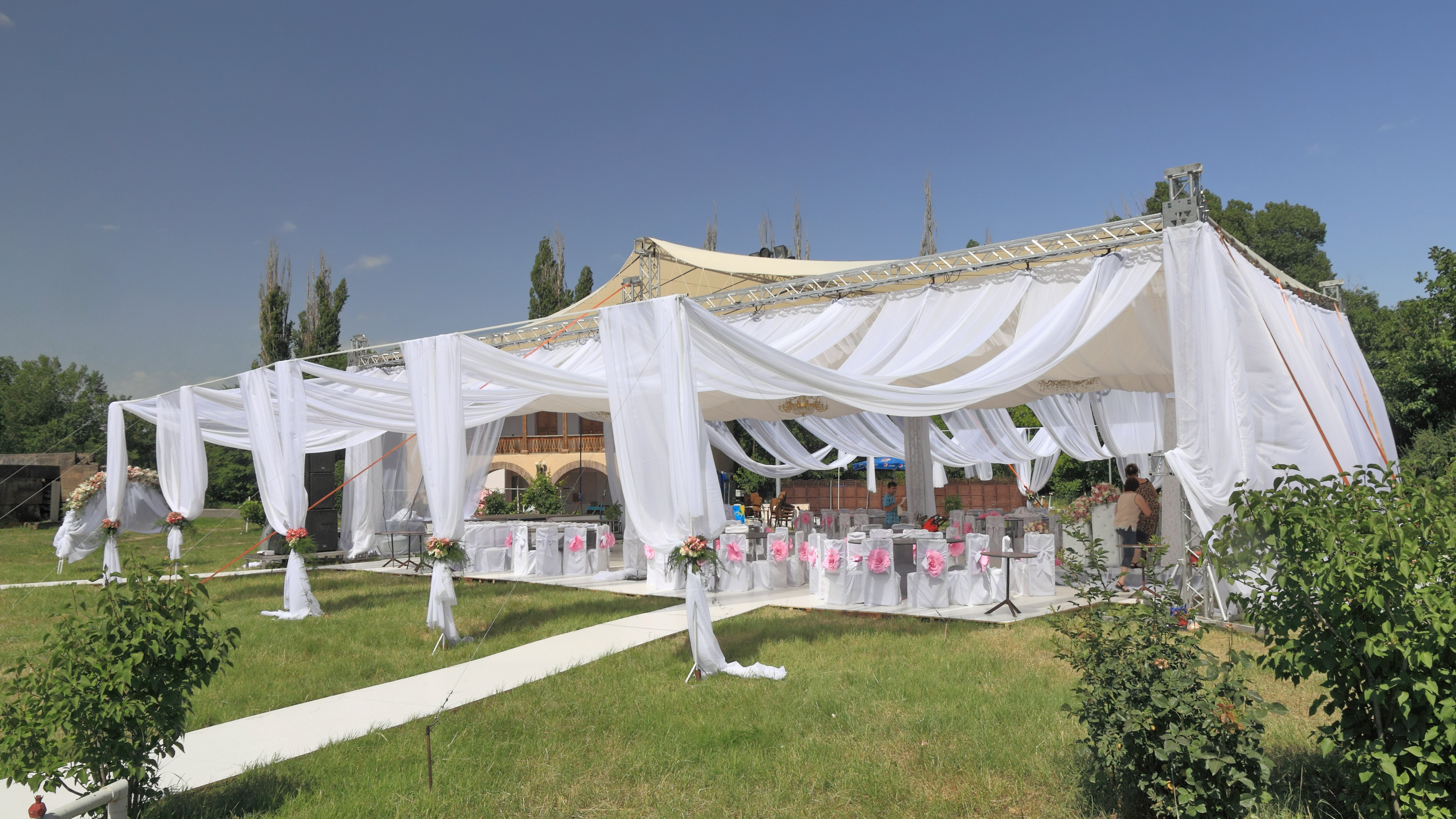 Wedding tent. Zvartnots, Armavir Province, Armenia.